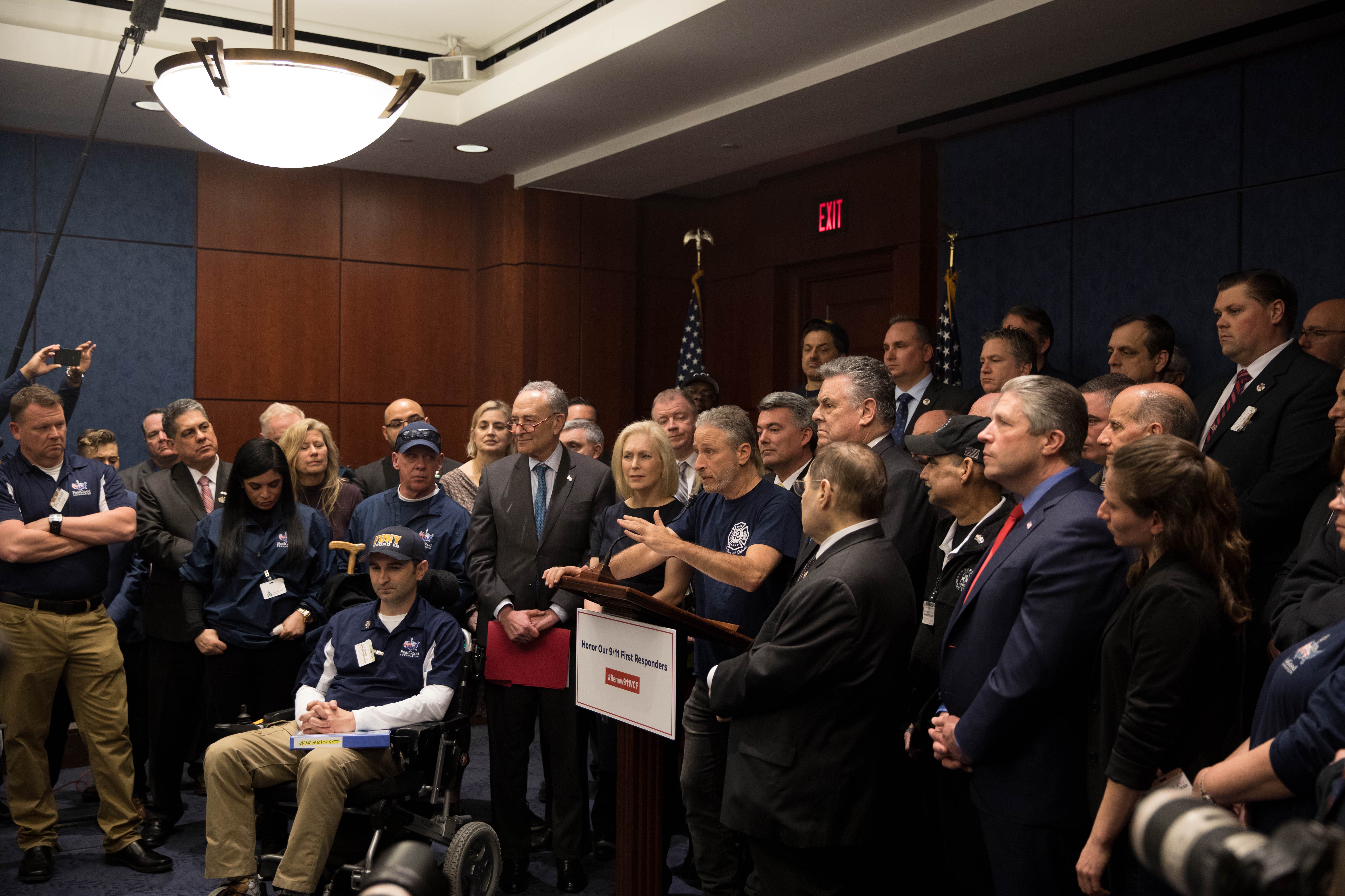 911Presser_092519 (37 of 62)